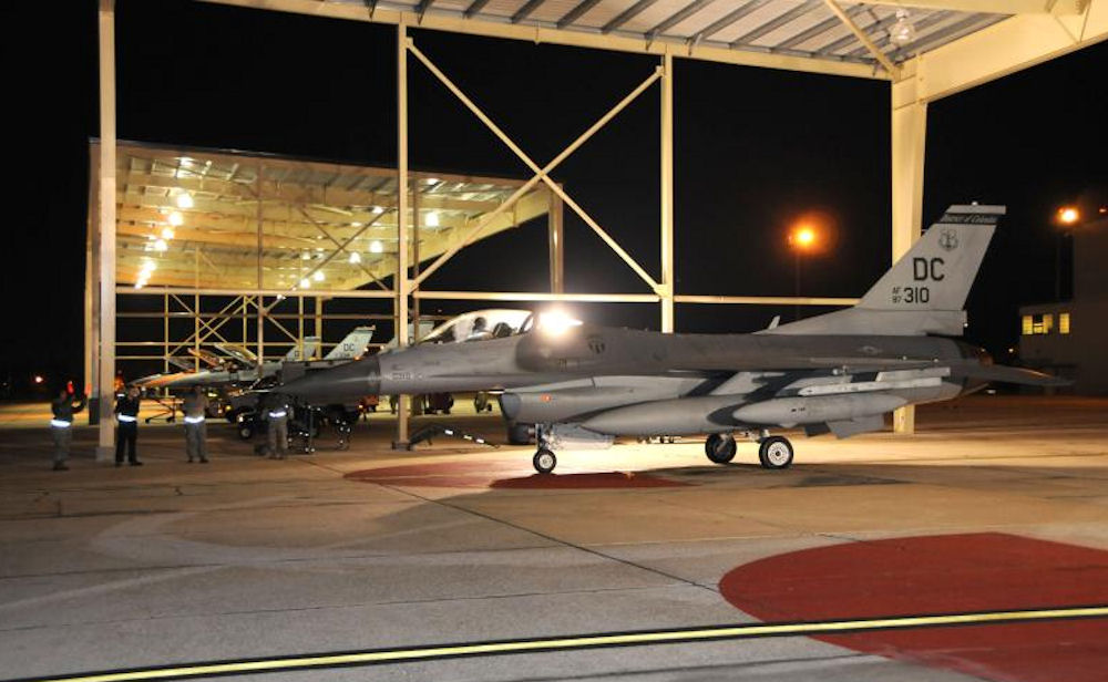 USAF F-16C block 30 #87-0310 from the 121st FS is ushered out onto the runway before heading out for its deployment to Afghanistan on October 11th, 2011. [USAF photo by TSgt. Craig Clapper]